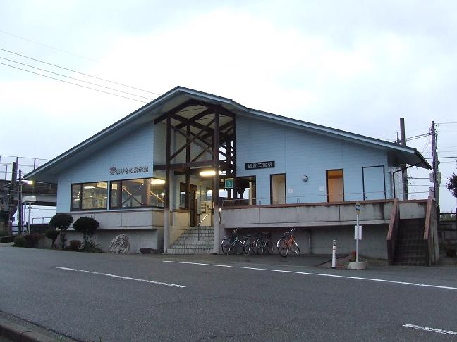 Noto-Nonomiya Station building